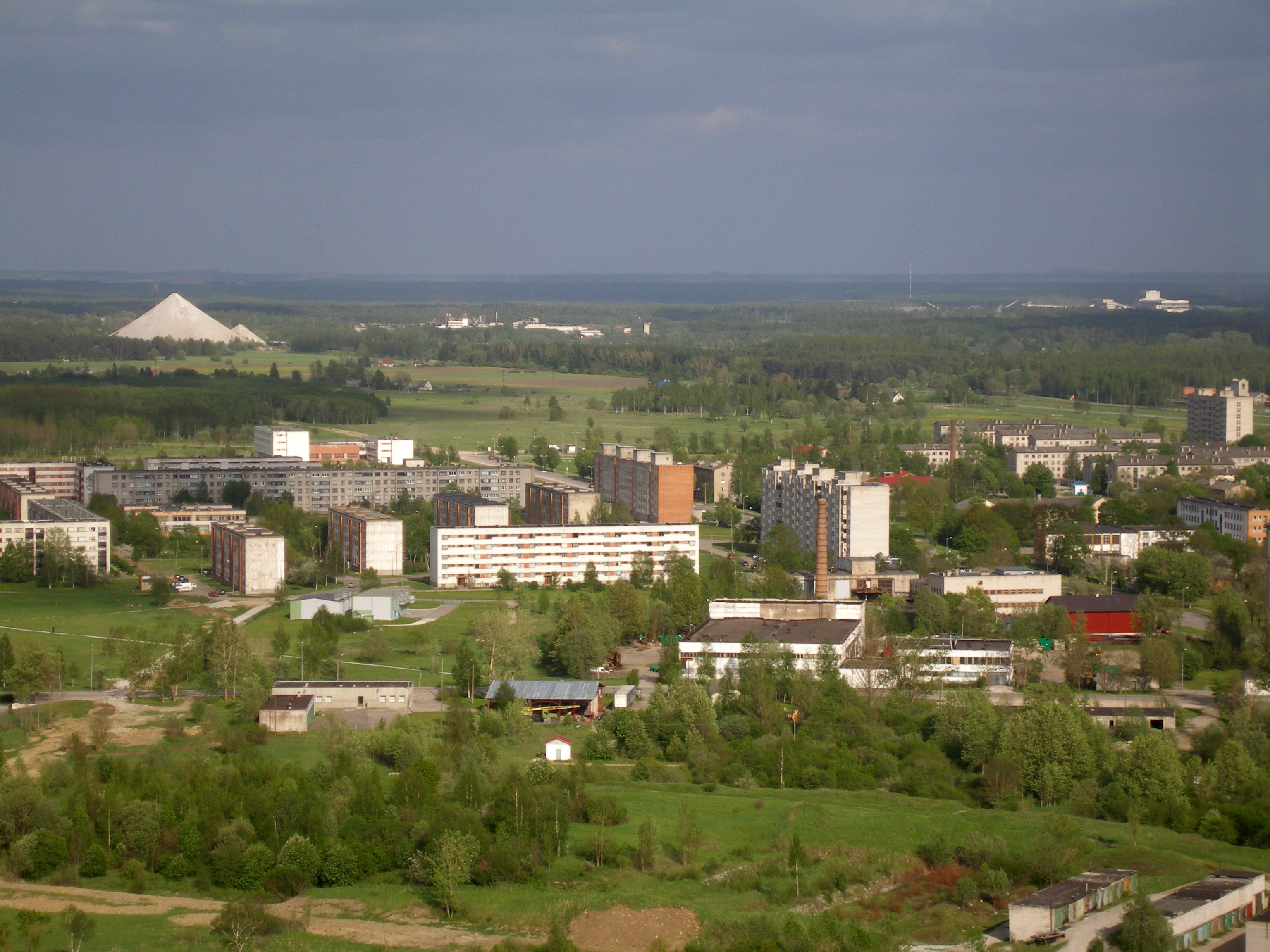 View of Kiviõli, Estonia. On the background - Püssi